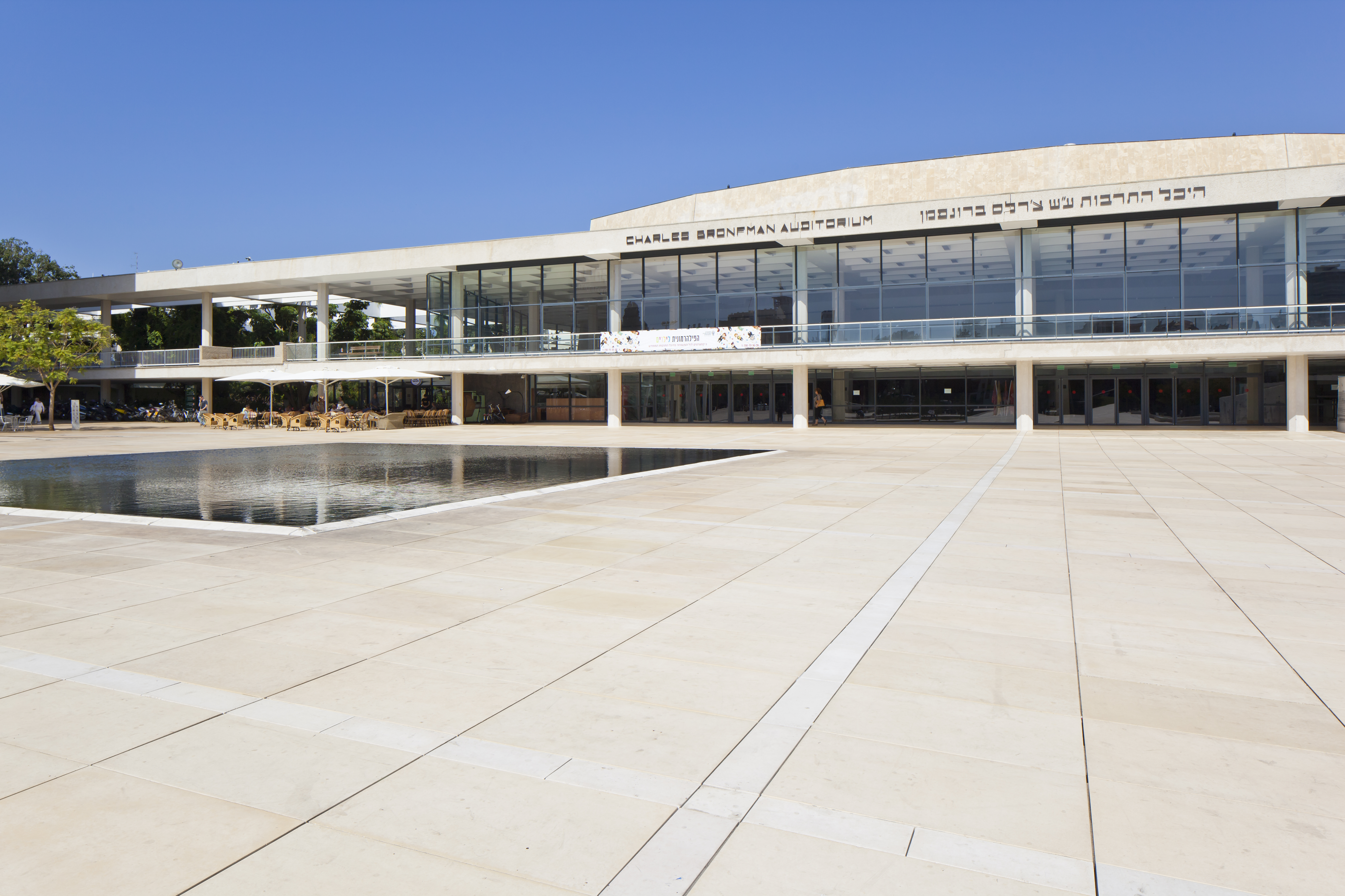 Charles Bronfman Auditorium